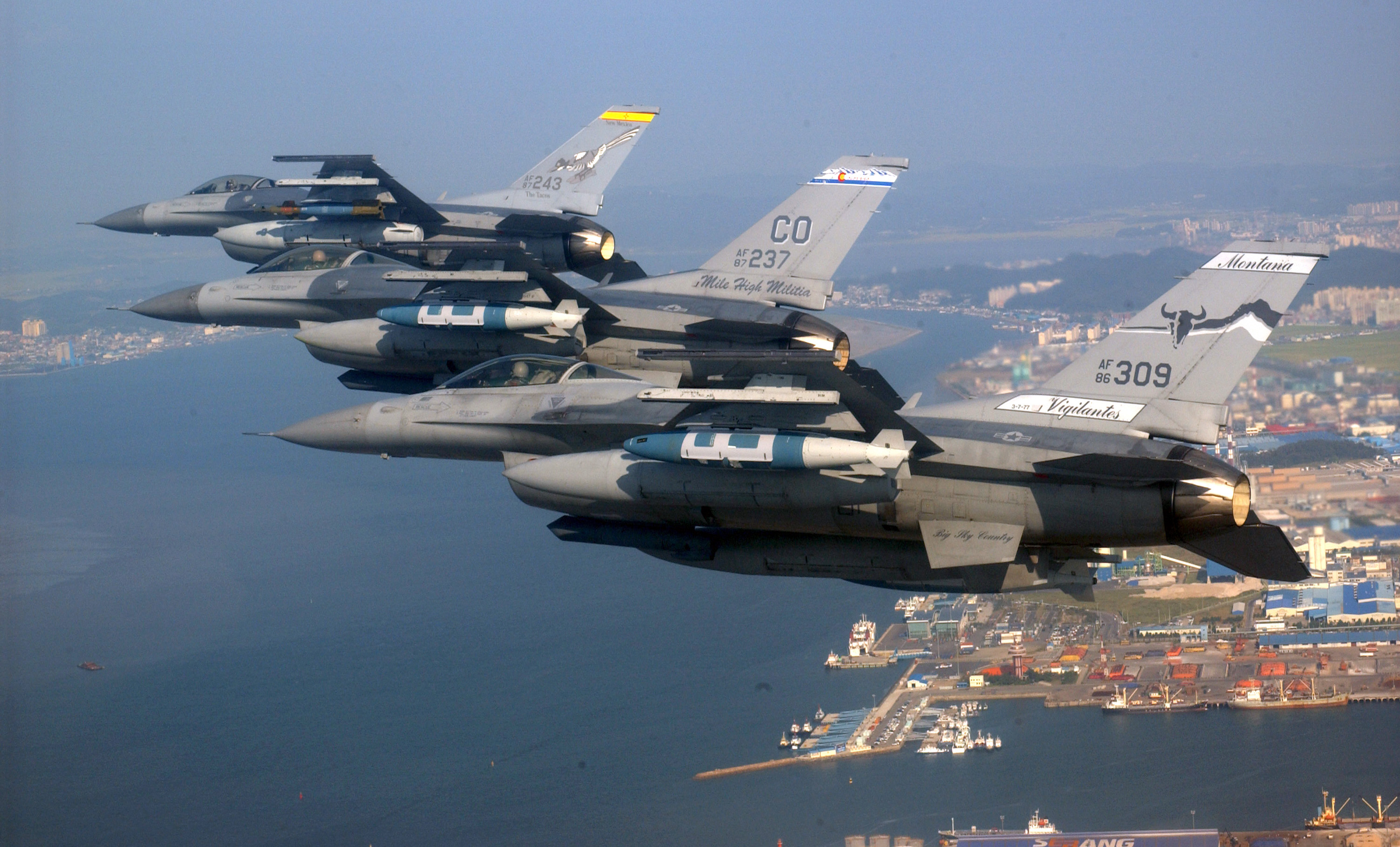 A three-ship formation of Air National Guard F-16 Fighting Falcons flies over Kunsan City, South Korea. The F-16s are from New Mexico, Colorado and Montana.